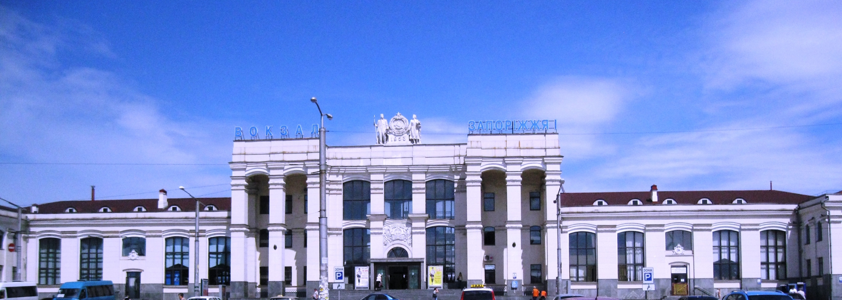 Zaporizhia I. Railway Station